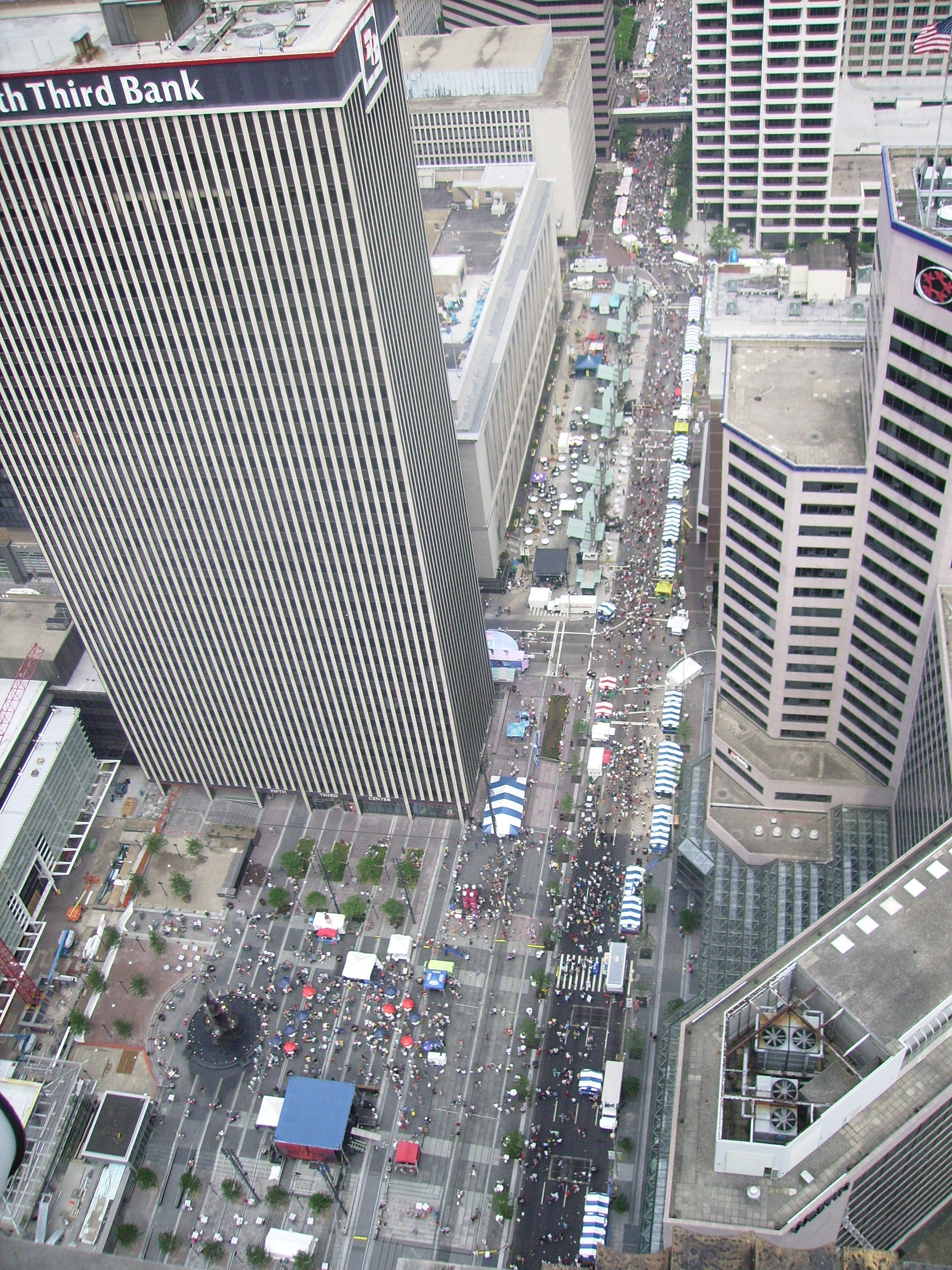 Taste of Cincinnati, 2007